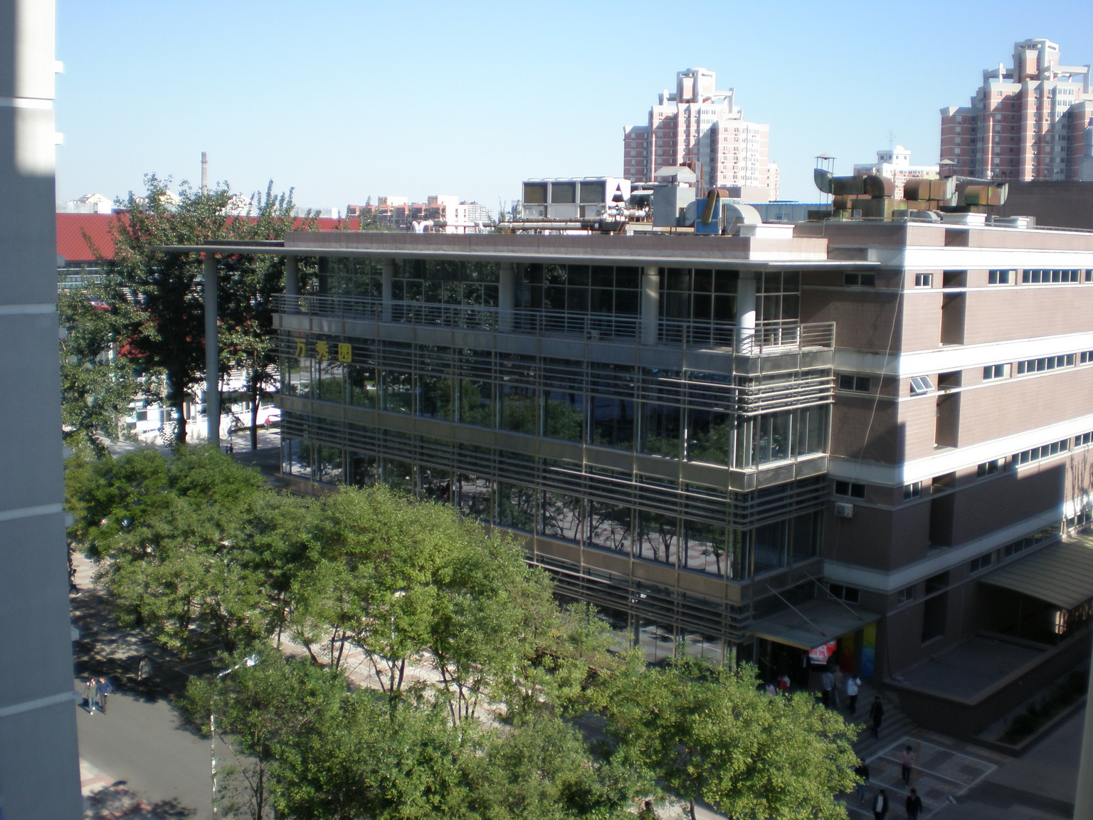 Wanxiuyuan cafeteria in the University of Science and Technology Beijing